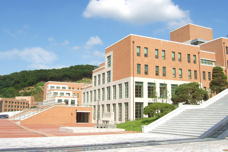 Hyedanggwan Foreground of Dankook University(Jukjeon)